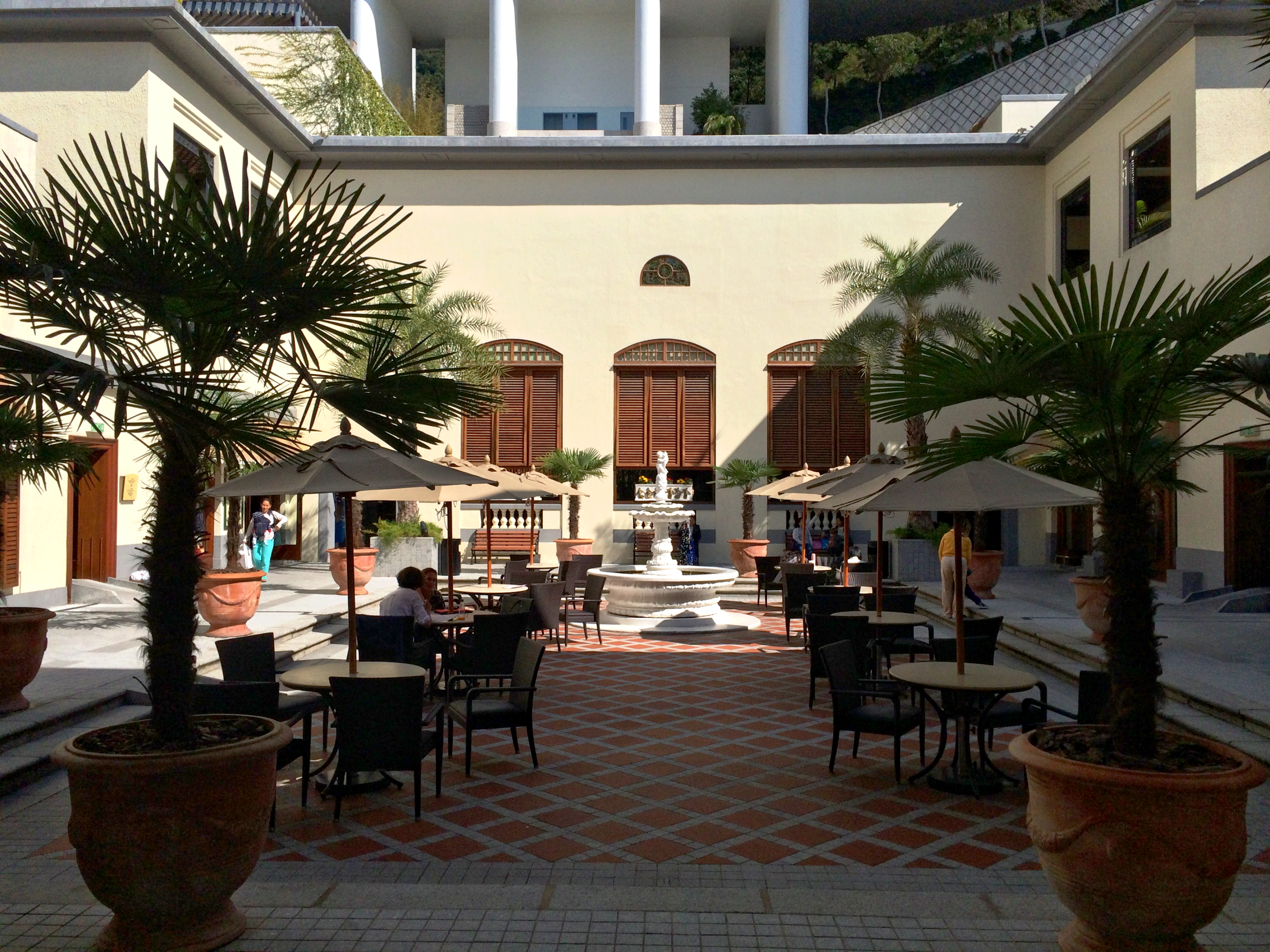 The Repulse Bay Shopping Arcade Garden